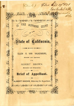 Ellen Van Valkenburg filed this brief in 1871 in Santa Cruz after she was denied the right to vote because she was a woman